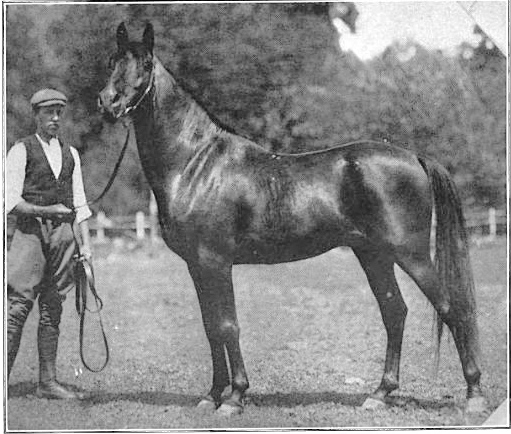 Haleb, imported from the desert to America by Homer Davenport in 1906. Photo date unknown, published in 1913, page 34